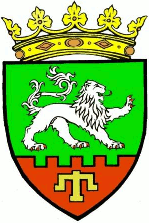 Coats of arms of Raion Taraclia in Moldova